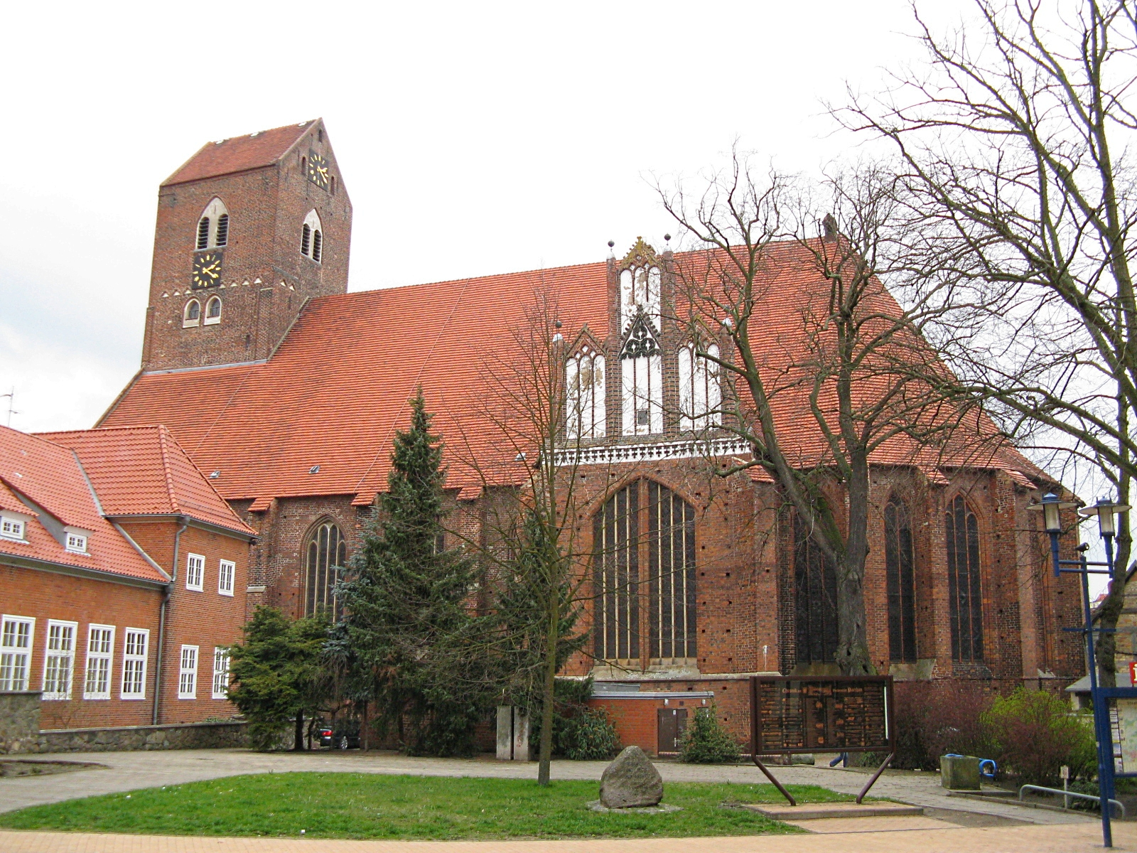 Church St. Georgen in Parchim, Germany